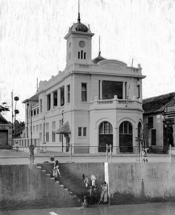 Office of the NHM at 'Noordwijk', Batavia